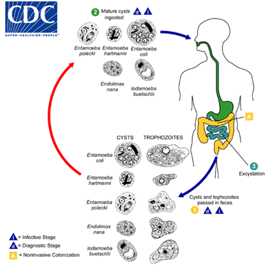 Common lifecycle of non-pathogen parasites.